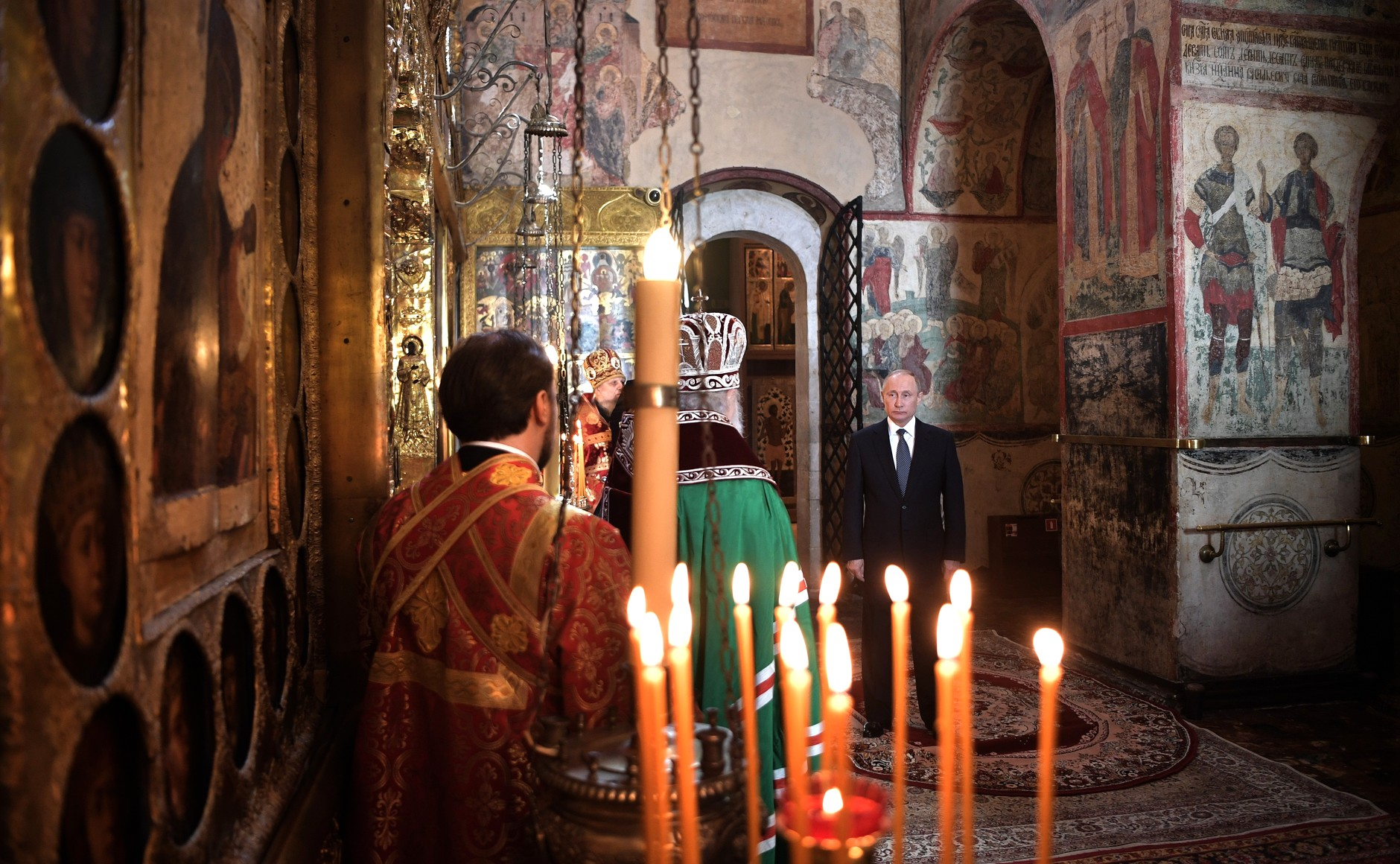 Vladimir Putin has been sworn in as President of Russia (2018-05-07)